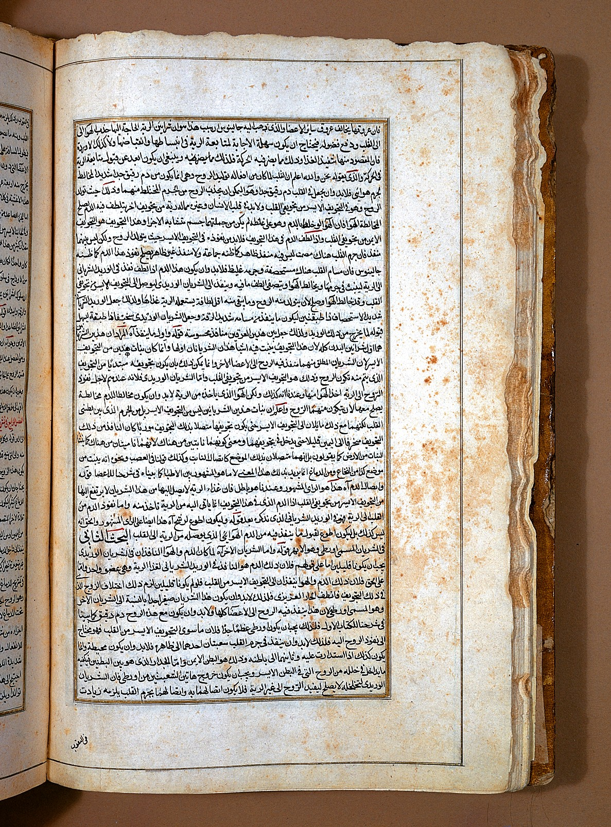 Commentary on Avicenna's Canon Asian Collection Keywords: Medicine, Arabic; Ibn an-Nafis; Avicenna